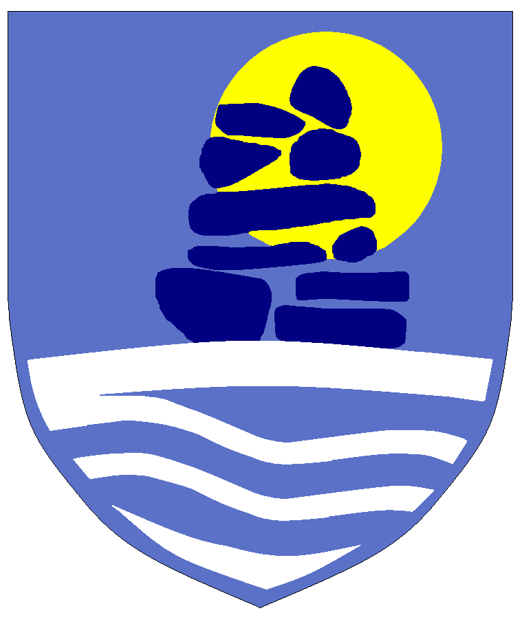 Coat of arms of the new Sermersooq municipality in Greenland. Emerson